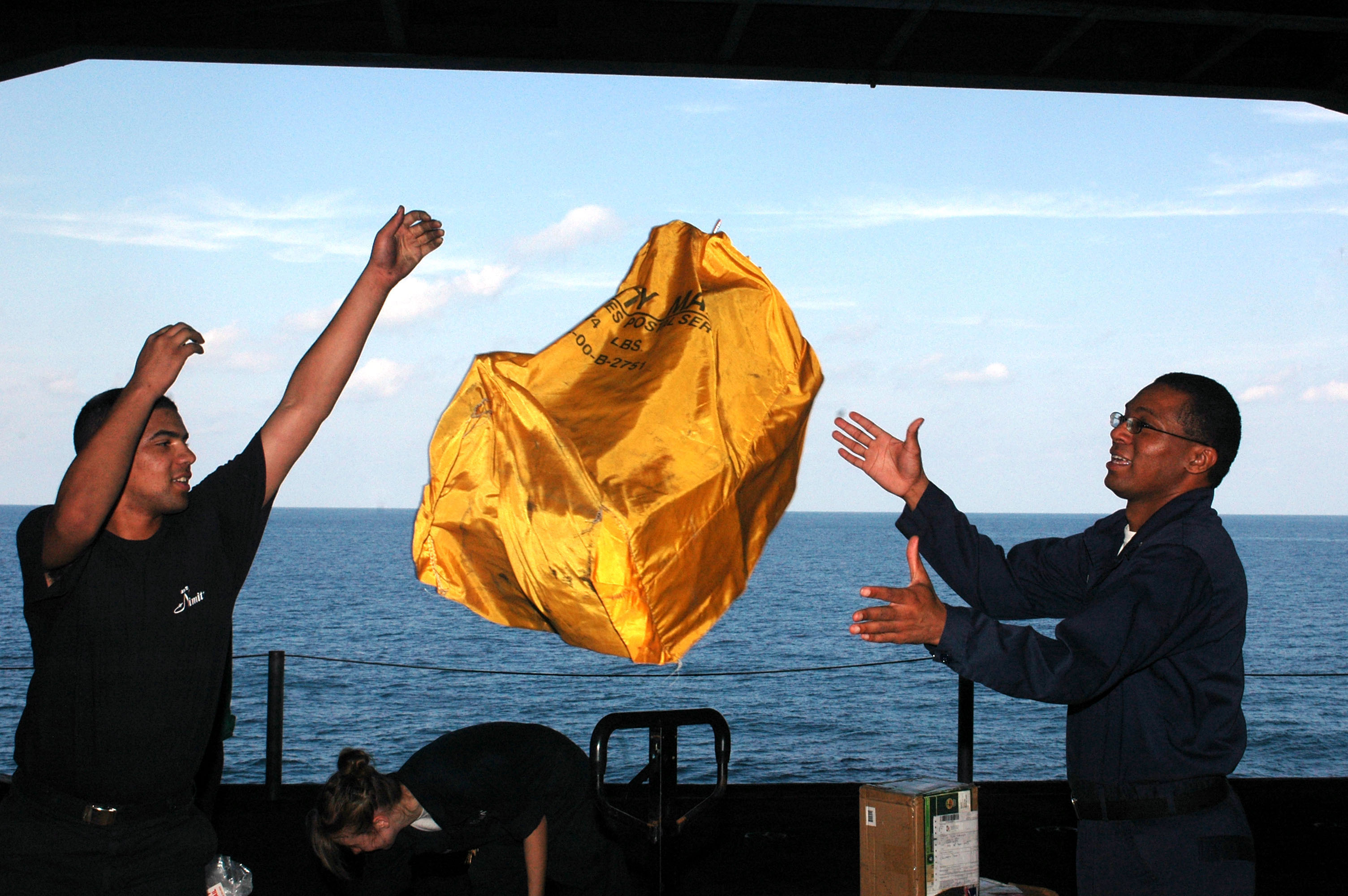 GULF OF OMAN (Nov. 22, 2009) Logistics Specialist Seaman Michael Gonsalves tosses a mailbag to Logistics Specialist 3rd Class Stephen Alexander in the hangar bay aboard the aircraft carrier USS Nimitz (CVN 68). The Nimitz Carrier Strike Group is on a scheduled deployment in the U.S. 5th Fleet area of responsibility. (U.S. Navy photo by Mass Communication Specialist Seaman Apprentice Robert Winn/Released)